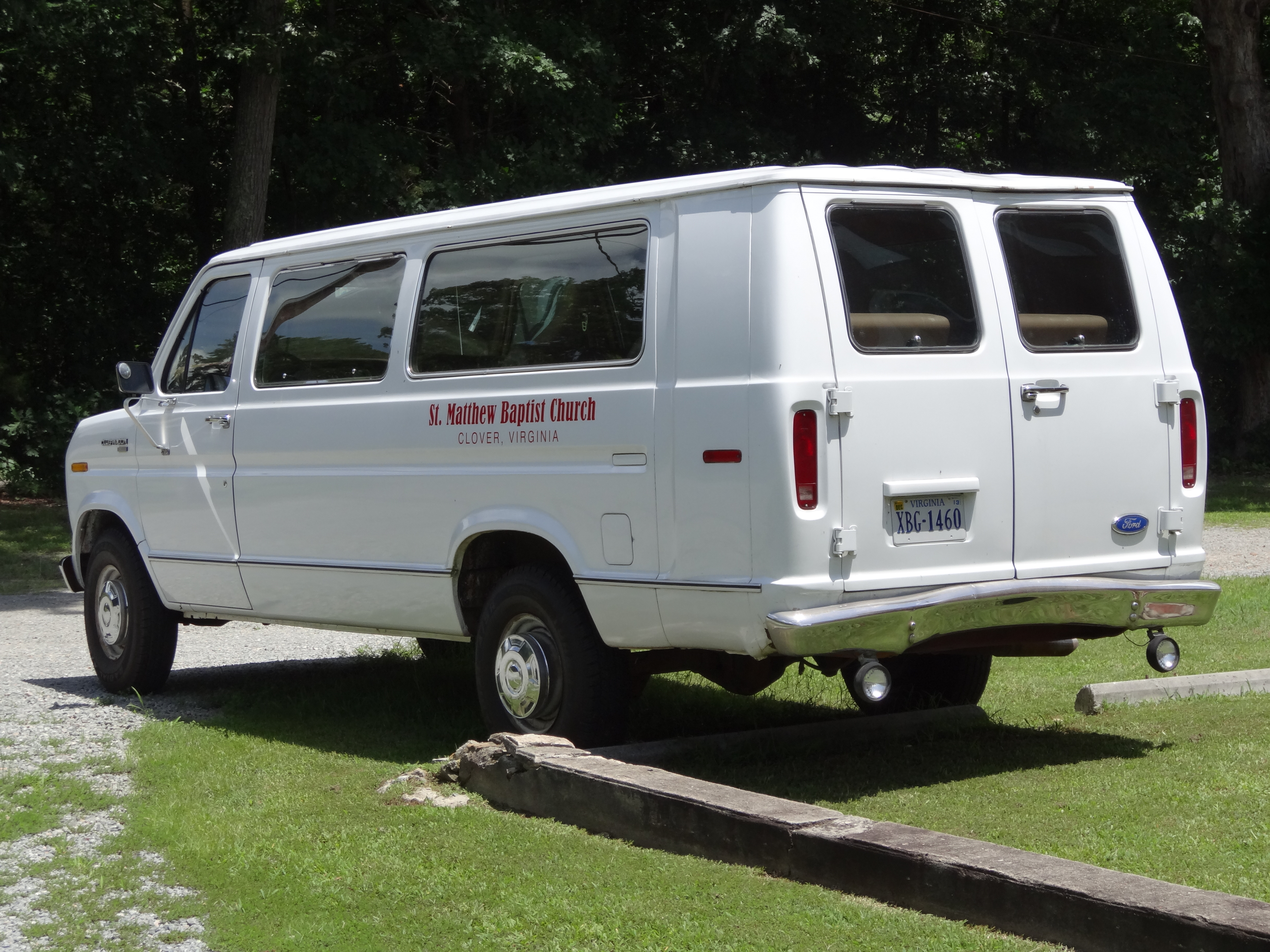 A church van for Saint Matthew Baptist Church, located at or near 1158 Clover Rd (SR 92), Clover, Virginia. The van is a Ford Club Wagon (second generation).